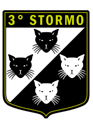 ensign of the 3º Stormo (3rd Wing) of the Aeronautica Militare (Italian Air Force).